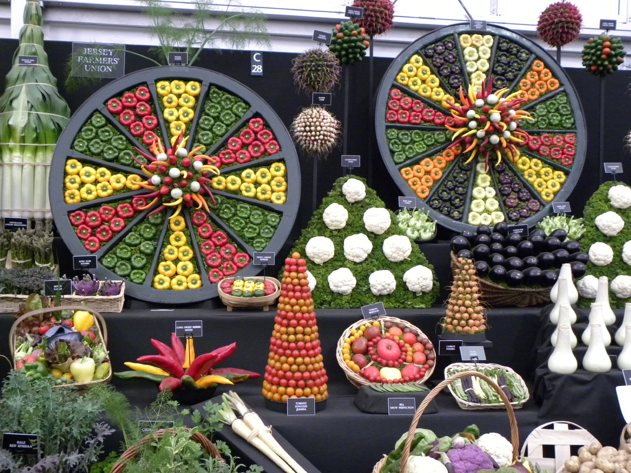 Jersey Farmers Union stand display of vegetables at 2009 Chelsea Flower Show